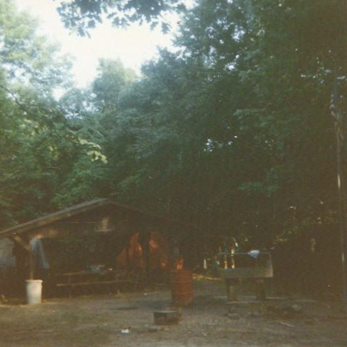 Crow's Nest camp area, Woodland Trails Scout Reservation, Ohio